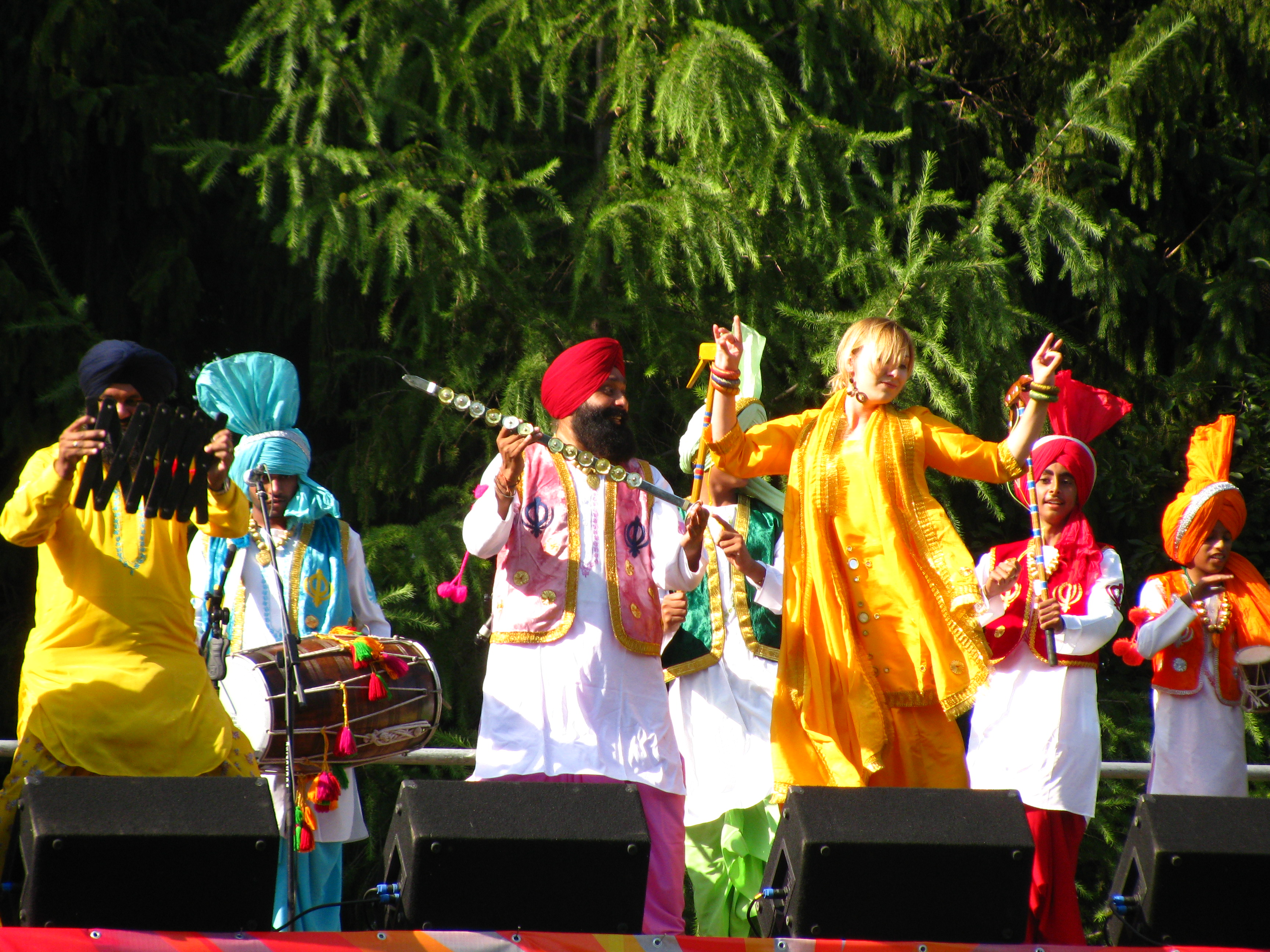 Etnovyr-2009 festival